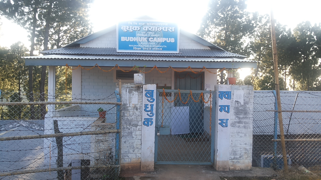 Budhuk Campus is loccated at Maunabudhuk VDC